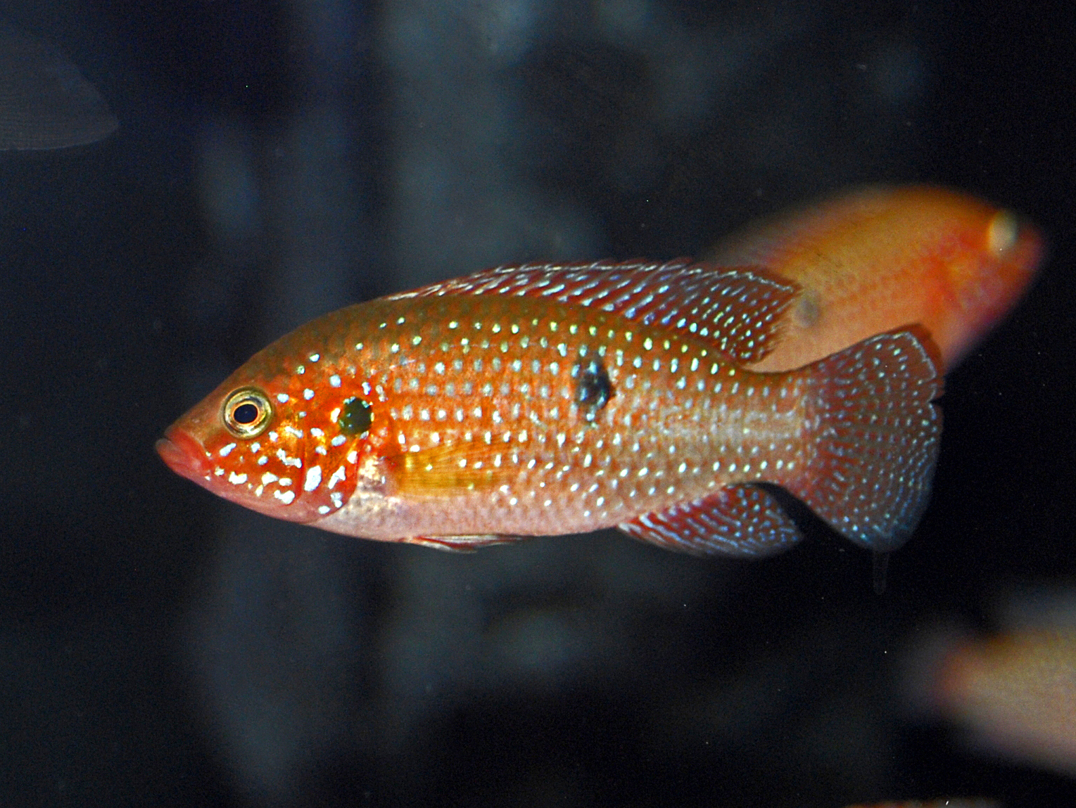 Hemichromis lifalili, at the Museo di Storia Naturale e del Territorio, Calci (Province Pisa), Italy